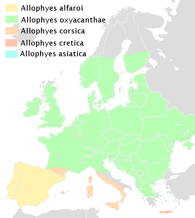 Distribution of the genus Allophyes in Europe